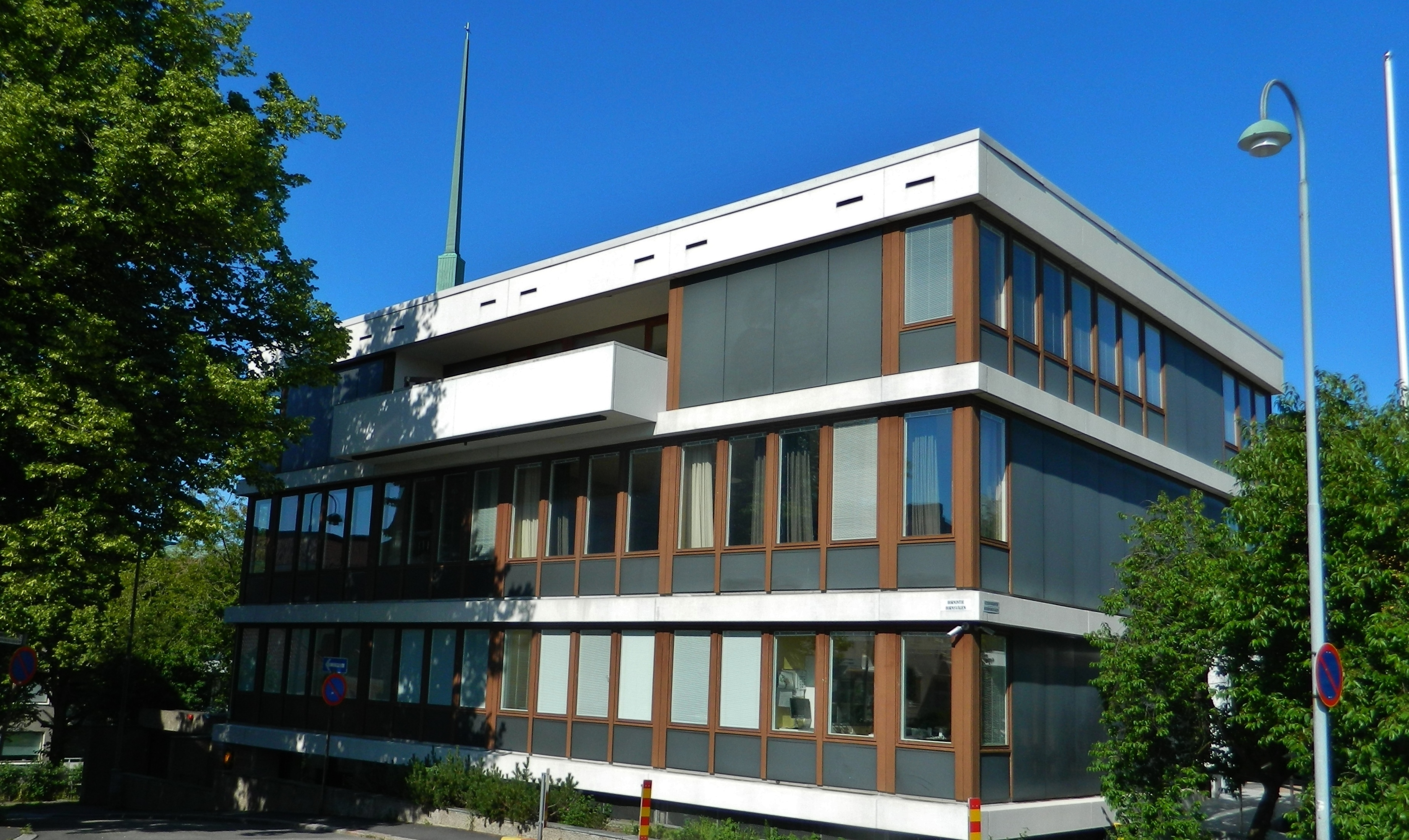 Embassy of Norway in Helsinki, Finland.